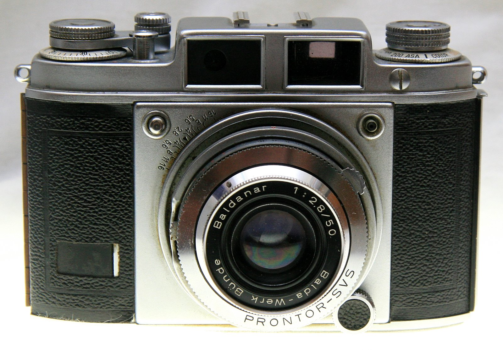 Balda Super Baldina film camera.